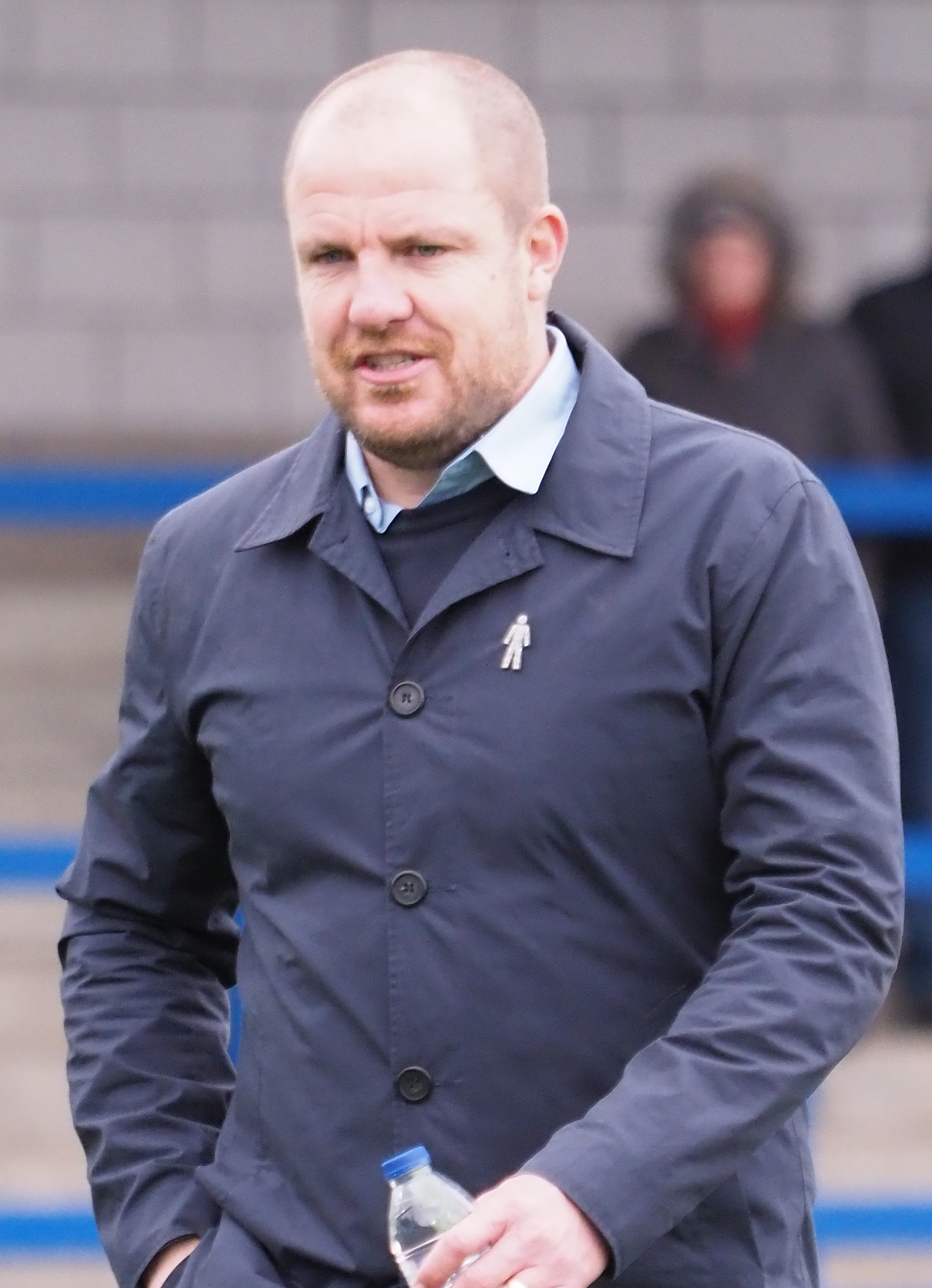 Sam Collins managing York City against AFC Telford United at the New Bucks Head, Telford on 27 October 2018